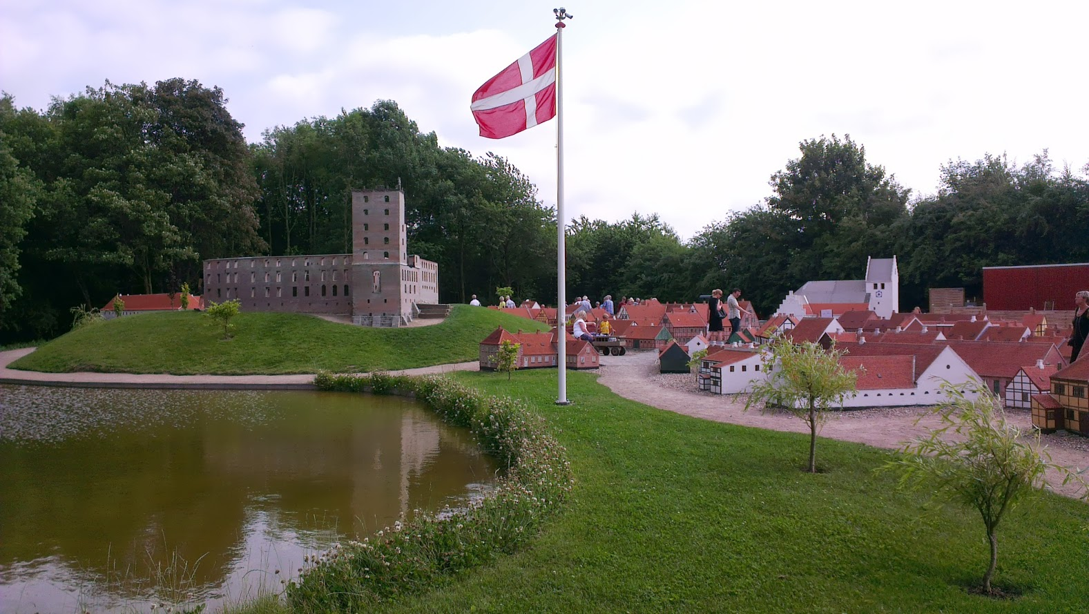 Kolding Miniby.